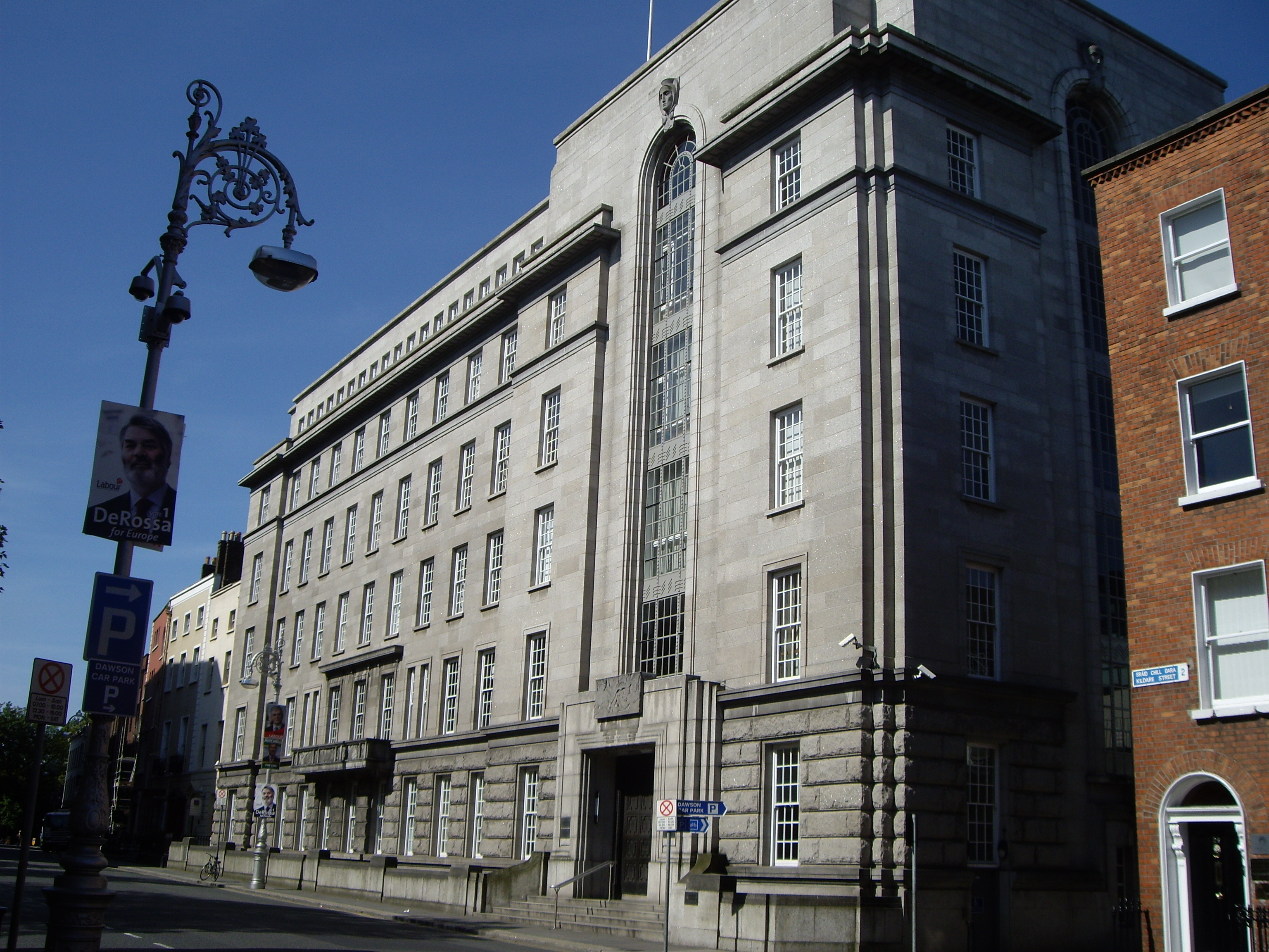 23 Kildare Street, Dublin 2; headquarters of the Department of Enterprise, Trade and Employment (Ireland) (formerly the Department of Industry and Commerce)